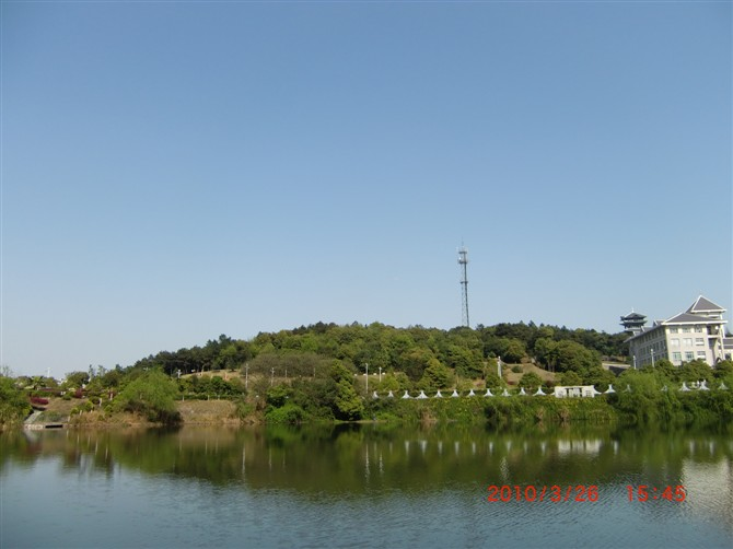 Hunan Mass Media Vocational Technical college,this photo shows The Teaching building.